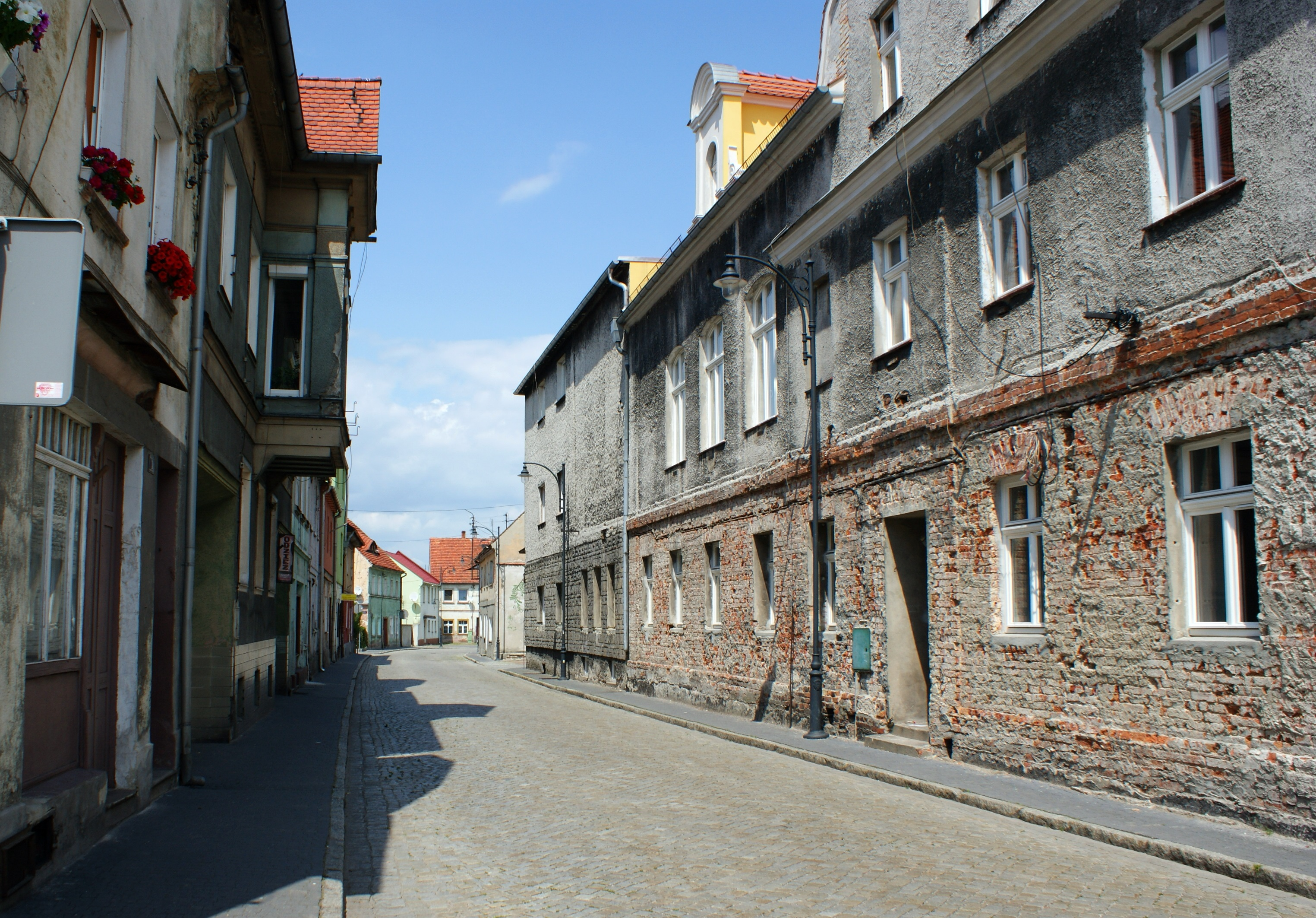 Kosciuszki Street in Nowe Miasteczko, Lubuskie (W Poland)